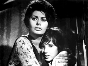 Two Women (1960)